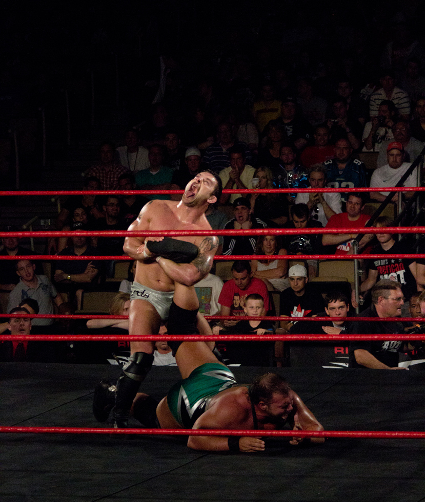 Davey Richards Ankle Lock